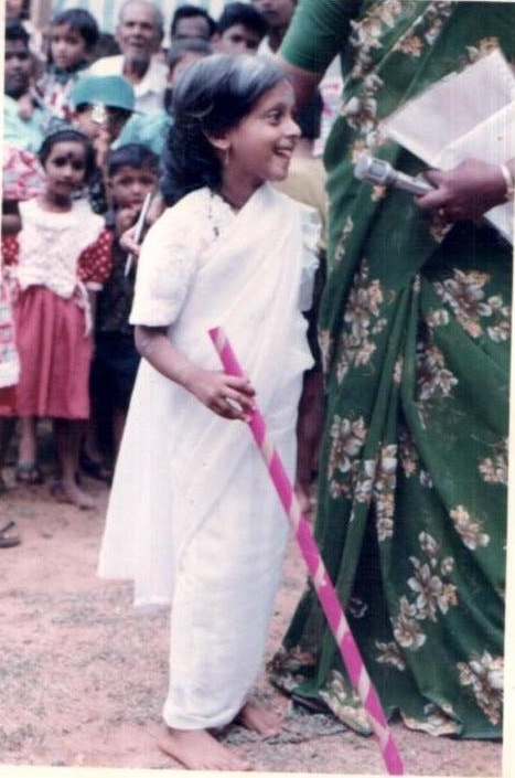 small girl wearing aviyar costume